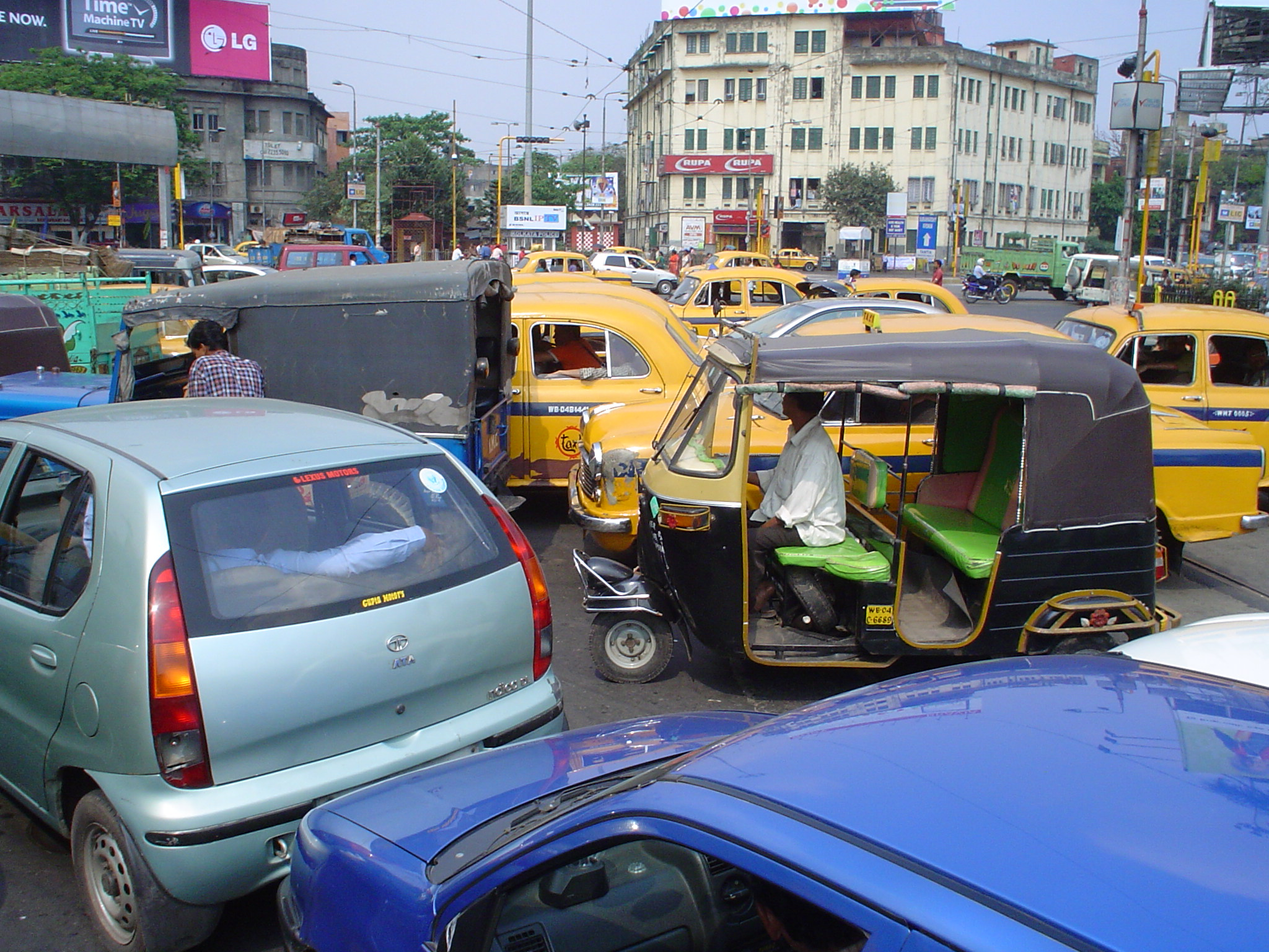 Traffic congestion at the Park Circus 7 point crossing, Kolkata.